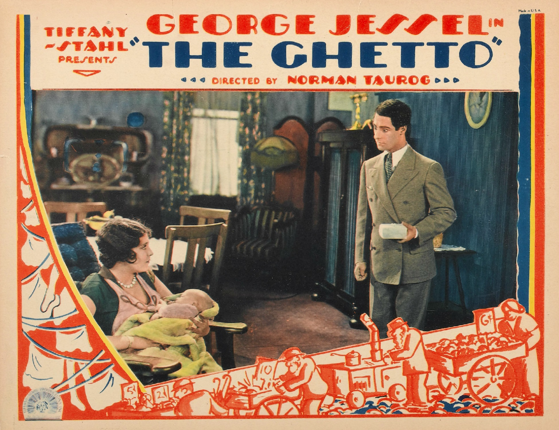 Lobby card for the American drama film Lucky Boy (1929) under its working title The Ghetto.